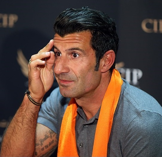 Luís Figo, former Portuguese footballer arriving in Imam Khomeini Airport for a charity match in Tehran